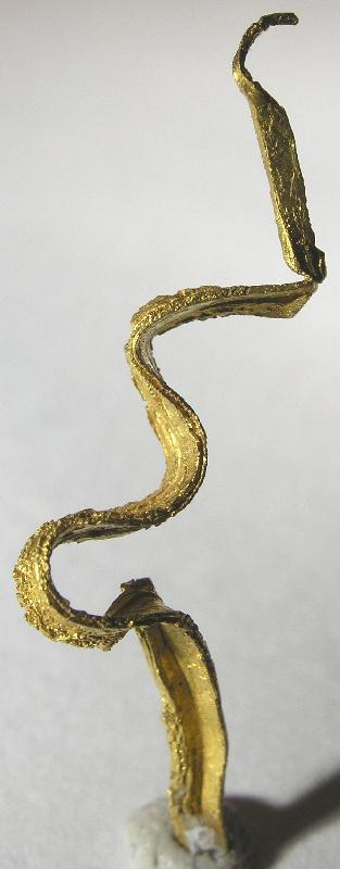 Gold Locality: Breckenridge District, Summit County, Colorado, USA (Locality at ) A beautiful , utterly classic Breckenridge "rope gold" , particularly spectacular in its flowing aesthetic form and rich luster. Even better in person. These are old, from teh 1800s, and utterly unobtainable on the market. The tope is fairly sturdy and is not "bendable" as it looks like it might be. However, if unbent, it would surely be 4 cm or so. 2.8 x .2 x .2 cm